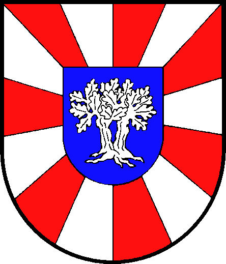 Coat of arms of the Amt (county) Hohenwestedt-Land in Schleswig-Holstein, Germany.